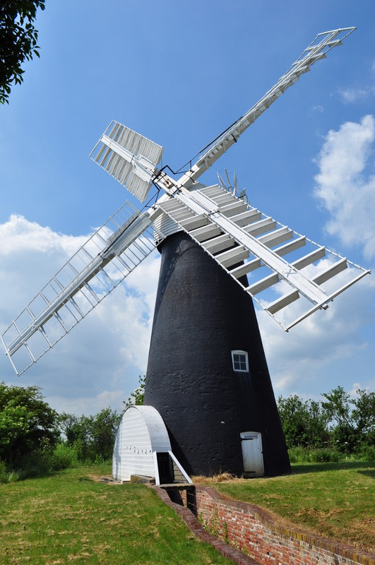 Polkeys Mill, 3 km from Wickhampton, Norfolk, Great Britain. The Mill at the pumping complex, with the first wind pump being built in the 1830s and the latest electrics being installed in the 1980s. They have been restored recently by the windmill trust with lottery and Wren grants The new scoop can be seen here compared to older views in this square.